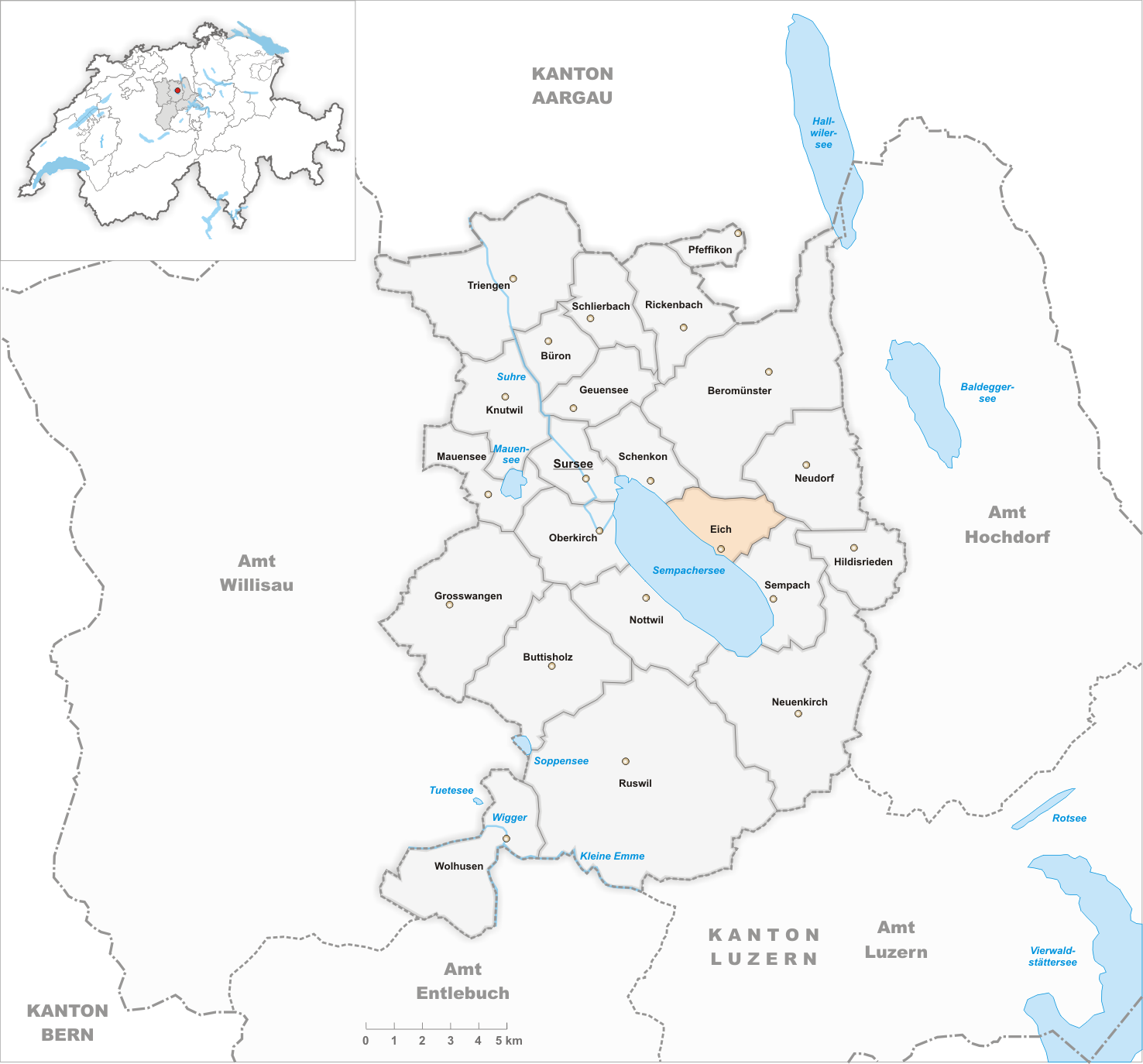 Municipality Eich